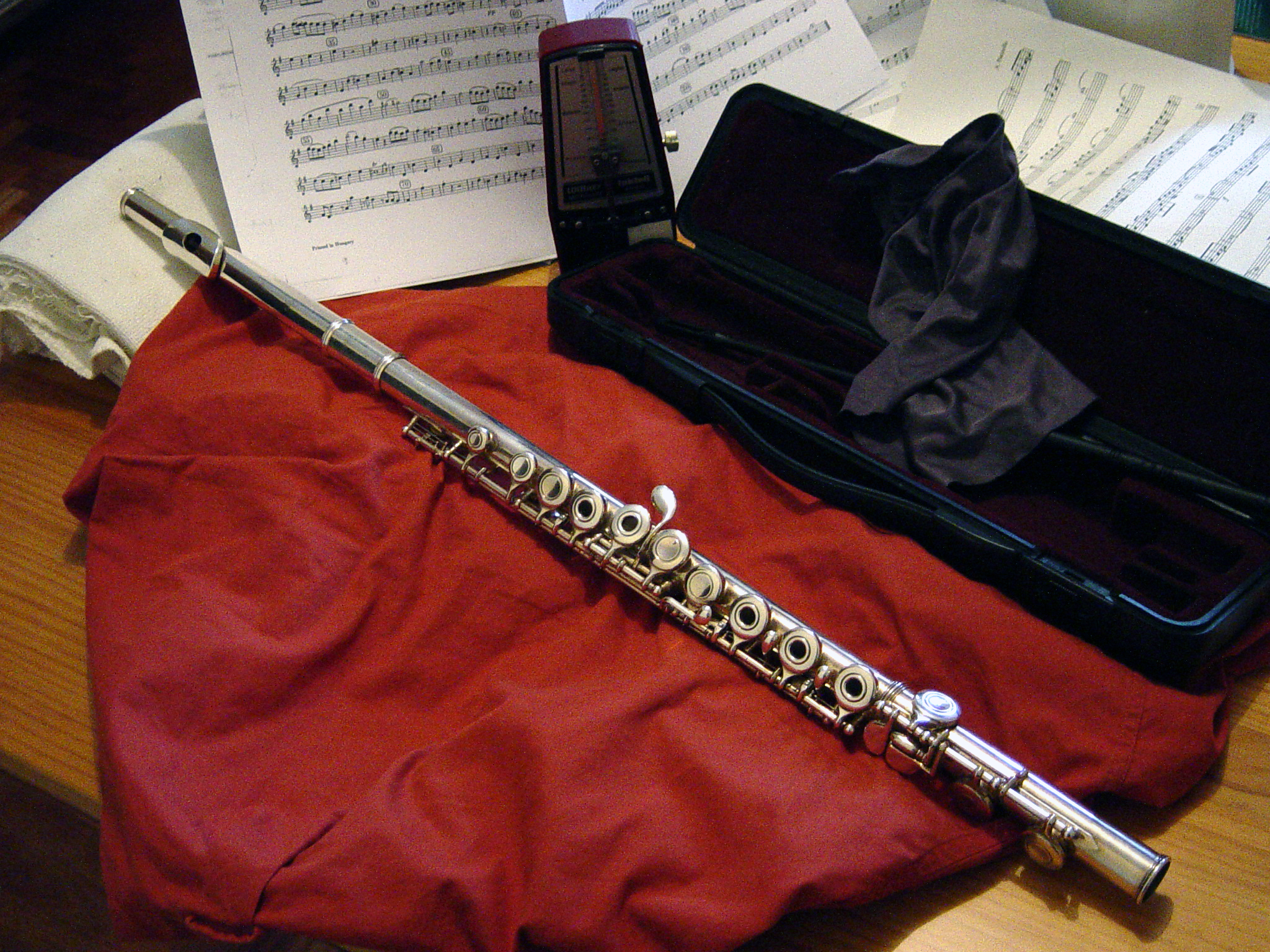 Western concert flute, yamaha 261, opened hole, assembled; flauta travesera de platos abiertos yamaha 261, montada